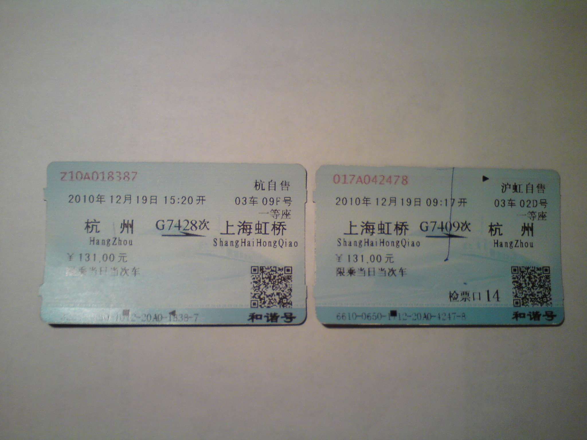 Tickets on the Huhang Highspeed Railway (Shanghai Hongqiao-Hangzhou). Tickets show the 9:17 G4709 train from Shanghai Hongqiao to Hangzhou and the 15:20 G7428 train from Hangzhou to Shanghai Hongqiao